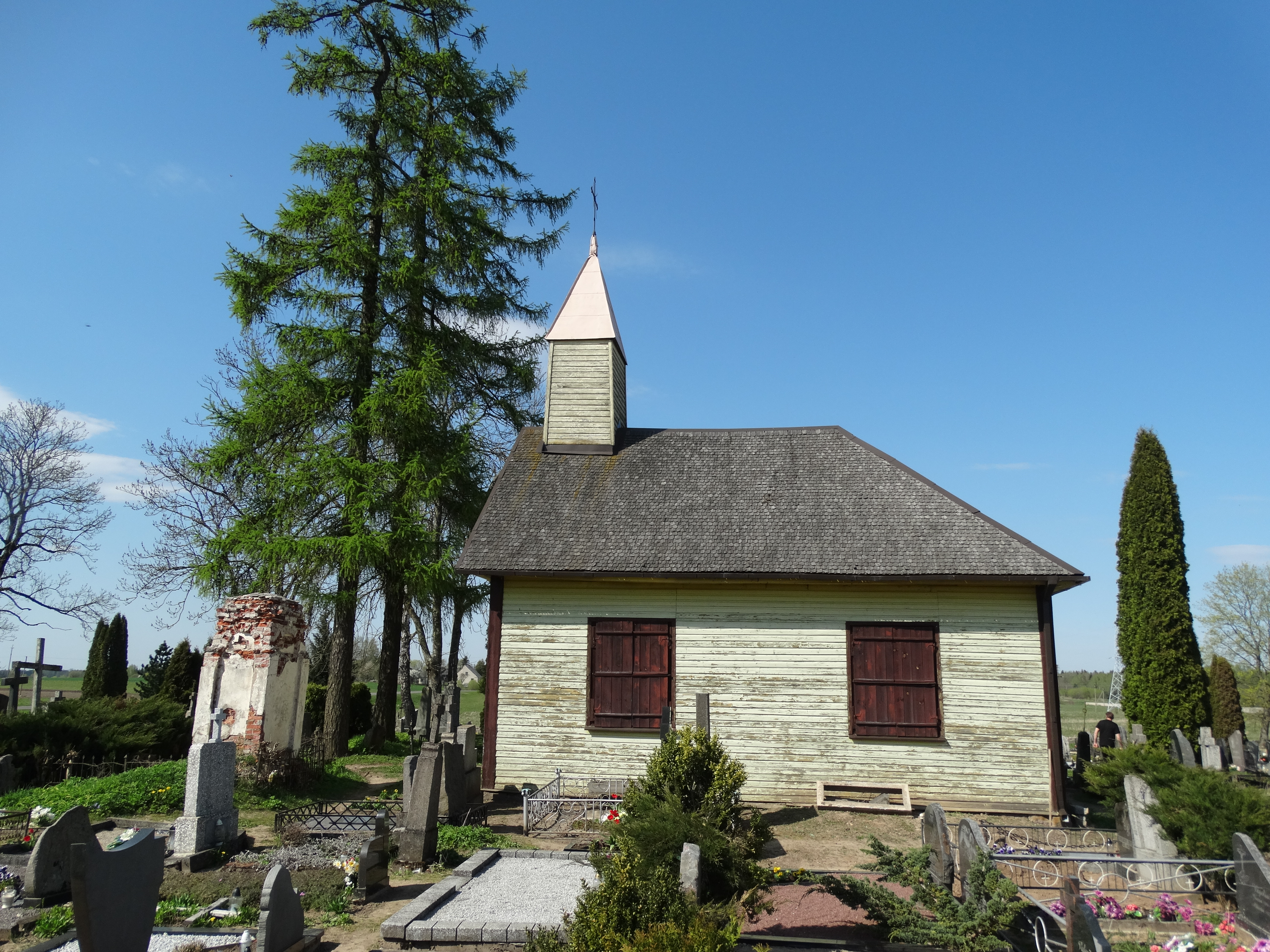 Cemetery chapel, Gelvonai, Širvintos District, Lithuania